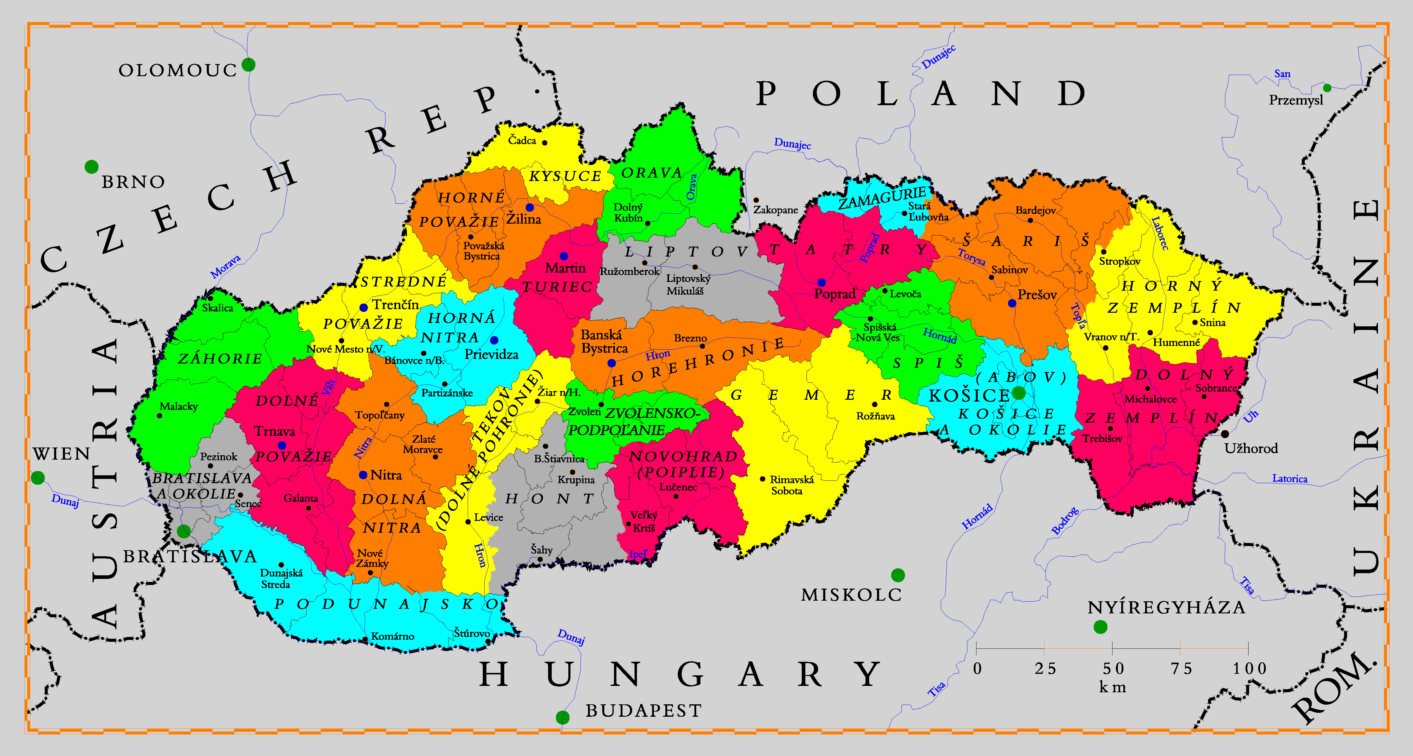 Map of tourism regions of Slovakia